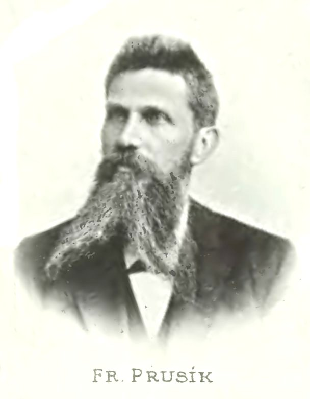 Portrait of František Xaver Prusík (1845-1905), Czech philosopher and historian of literature